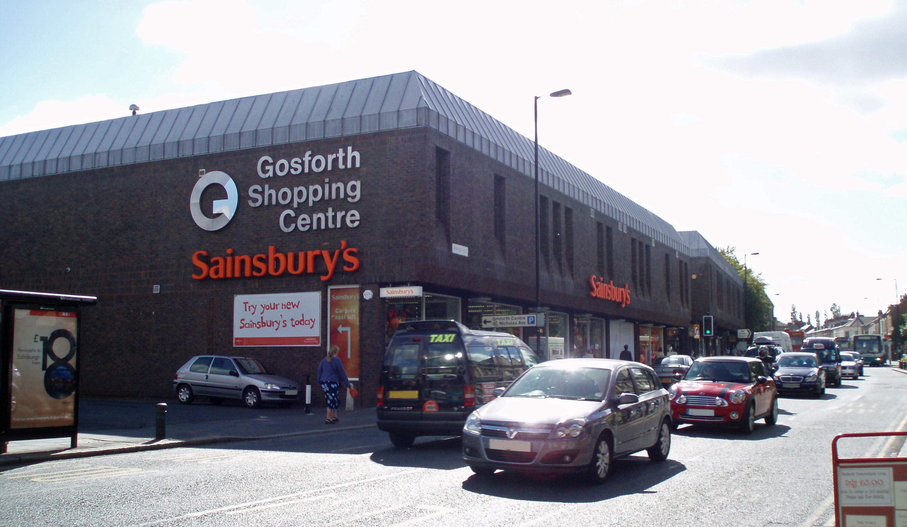 This is a view of Gosforth Shopping Centre on Gosforth High Street, Newcastle upon Tyne, England. This shows the 2007 Sainsbury's store.